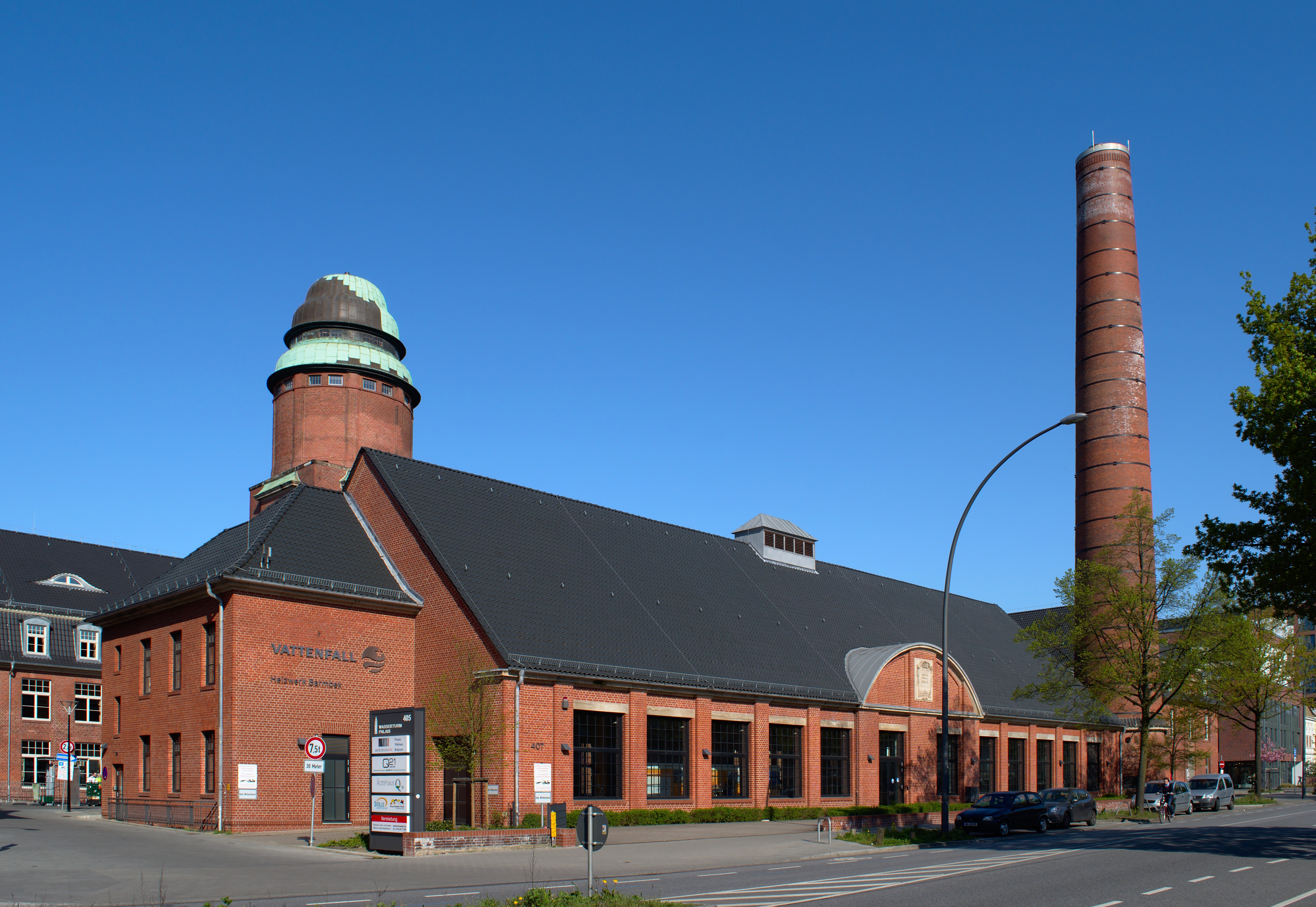 Barmbek peak-load district heating plant operated by the Vattenfall corporation in Hamburg-Barmbek in an old boiler house of the Barmbek General Hospital (AK Barmbek).